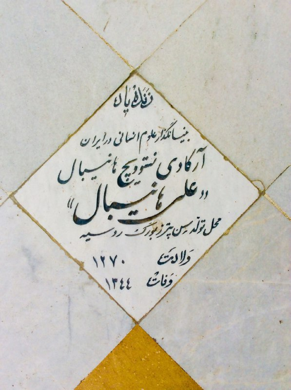 Ali Hanibal, Imamzadeh Ghasem, Tajrish